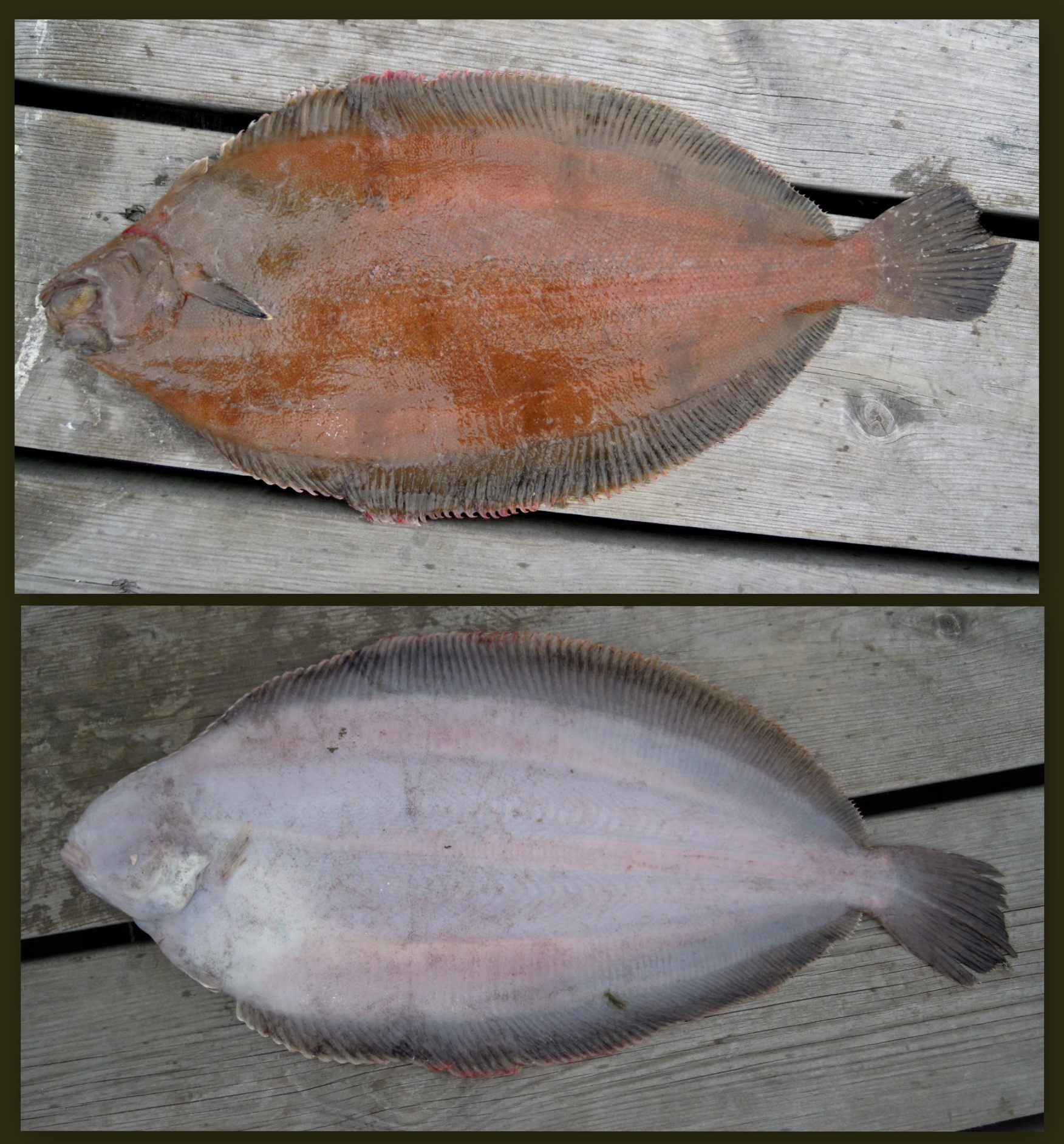 The witch or Torbay sole (Glyptocephalus cynoglossus), Stavern, Norway